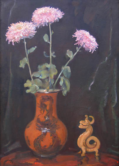 oil on canvas